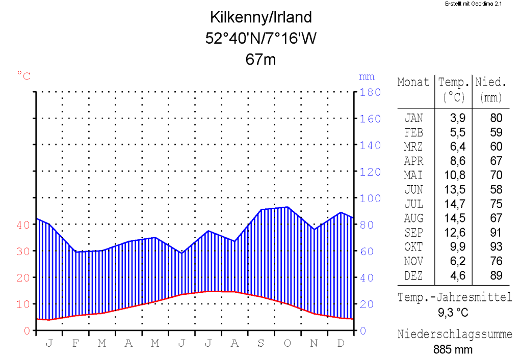 climate chart in the format by Walter and Lieth, metric, °Celsisus and millimeters, made with Geoklima 2.1